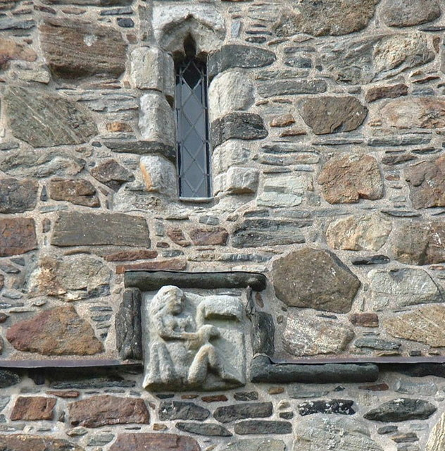 The Rodel Sheela na Gig Carving on Rodel Church.